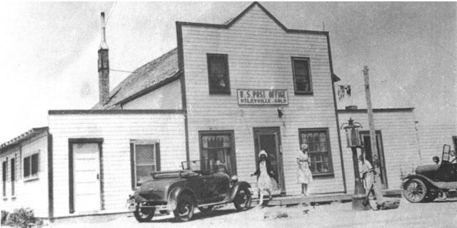 Original Post Office